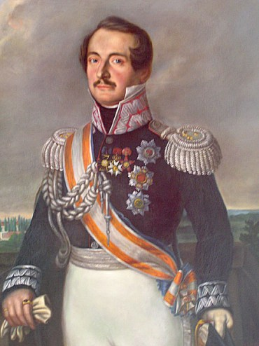 Portrait of Prince Antoni Paweł Sułkowski (1785-1836)